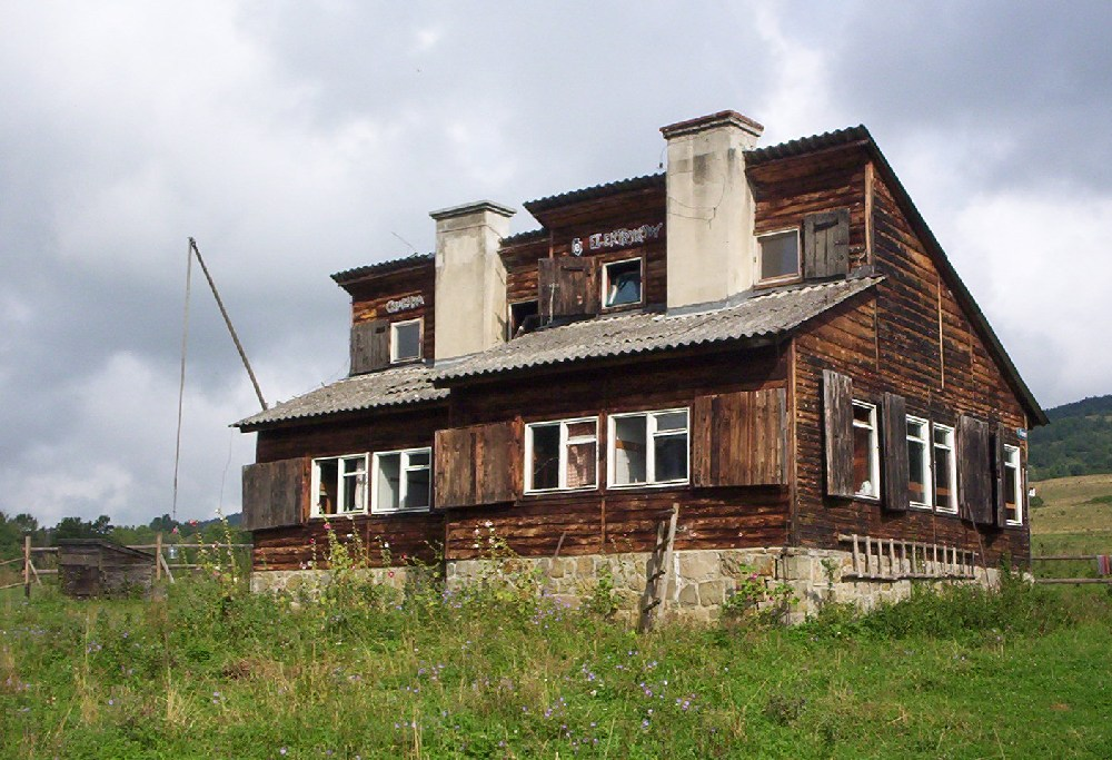 Student's hut ("Chałupa Elektryków) in Polany Surowiczne, Beskid Niski, Poland.